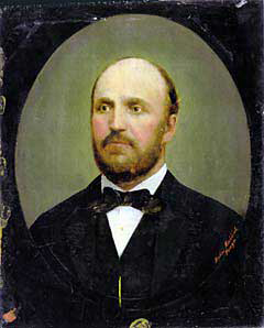 Portrait of Václav Klán